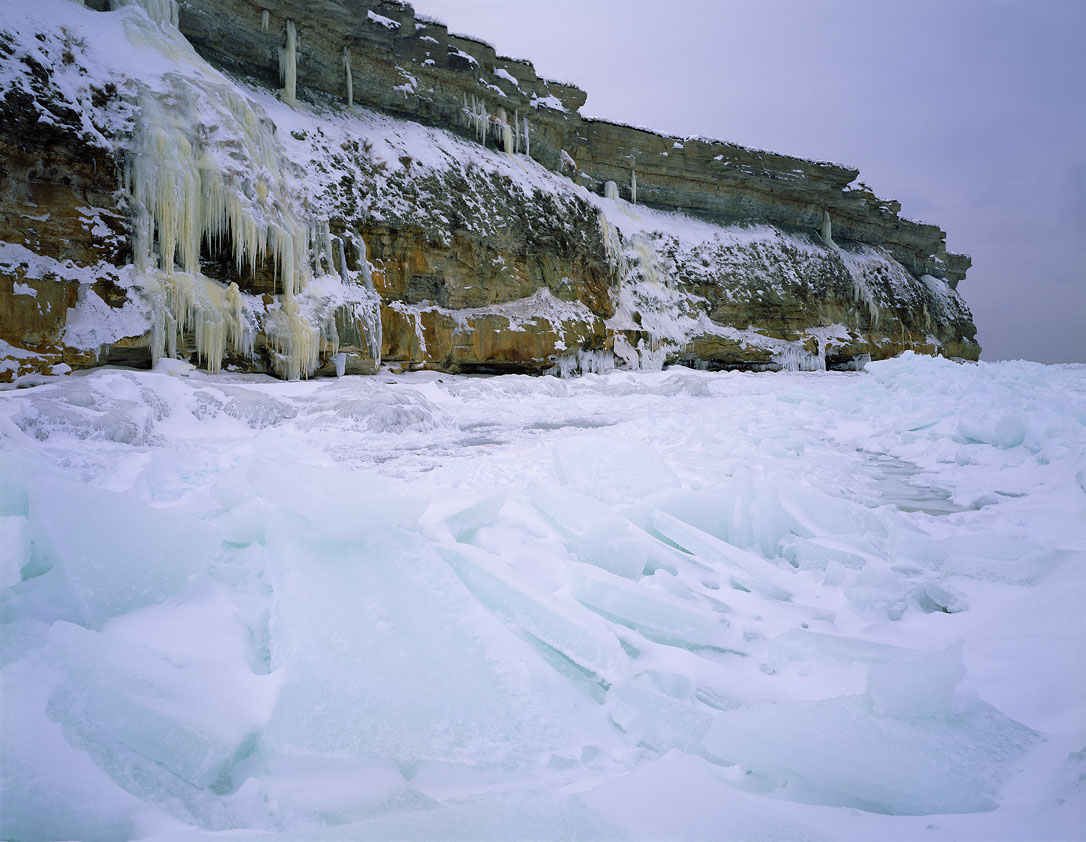 North-Estonian Klint in Estonia.